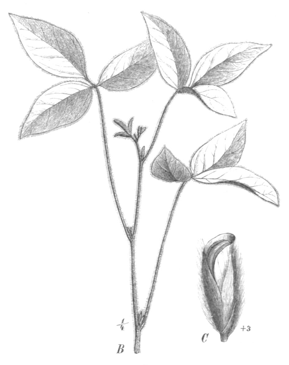 Illustration from book